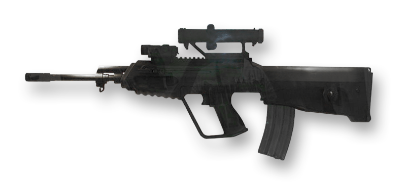 The Korean XK8 rifle on display at the International Defense Industries Fair in Ankara, 2007. It is here listed under its alternative name as DAR-21, which stands for Daewoo Assault Rifle, 21st century.